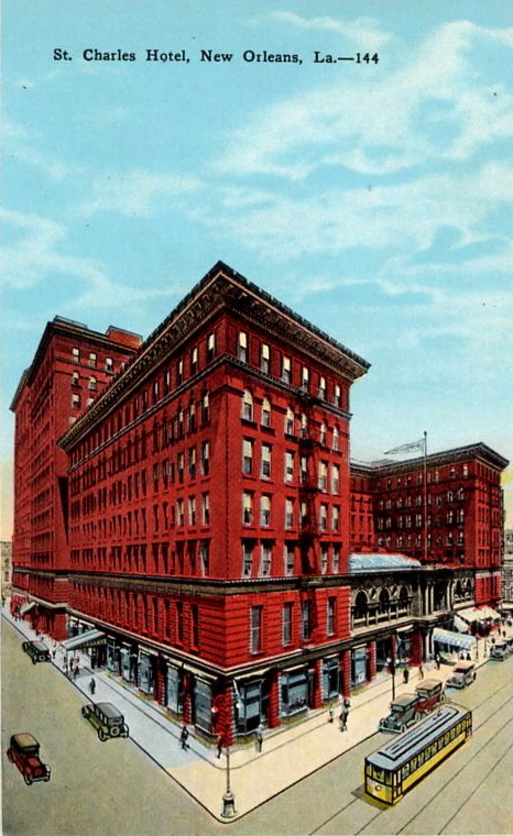 St. Charles Hotel, New Orleans Hotel was on the Lake side of the 200 block of St. Charles.